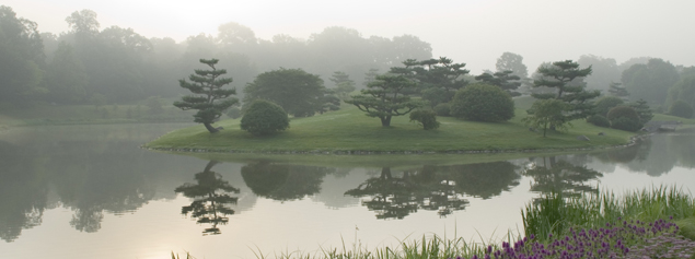 Chicago Botanic Garden Japanese Islands